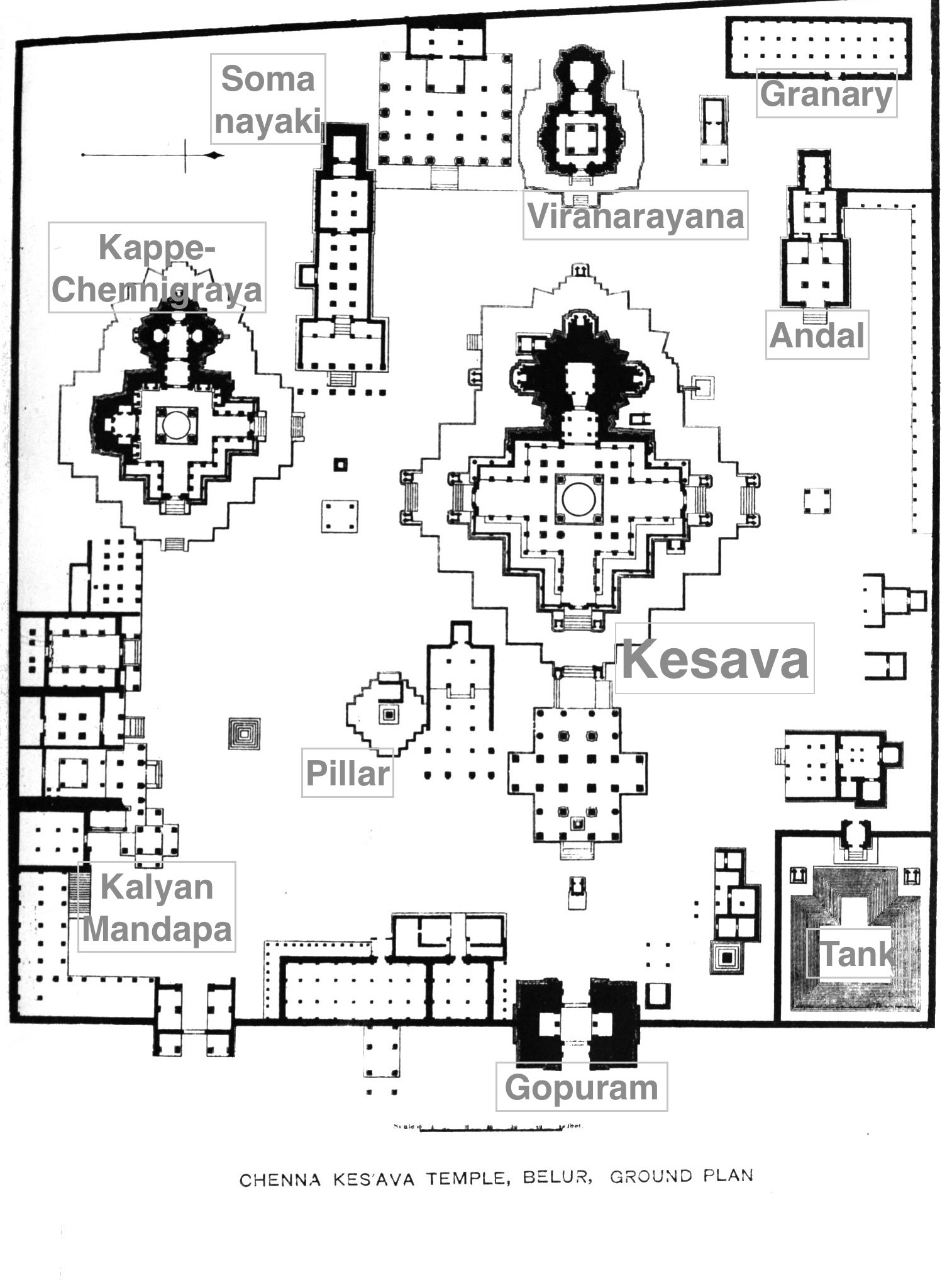 Some of the temples and other monuments annotated at Belur, Karnataka This is a derivative work on the following wikimedia file available with creative commons license: Belur temple plan.jpg